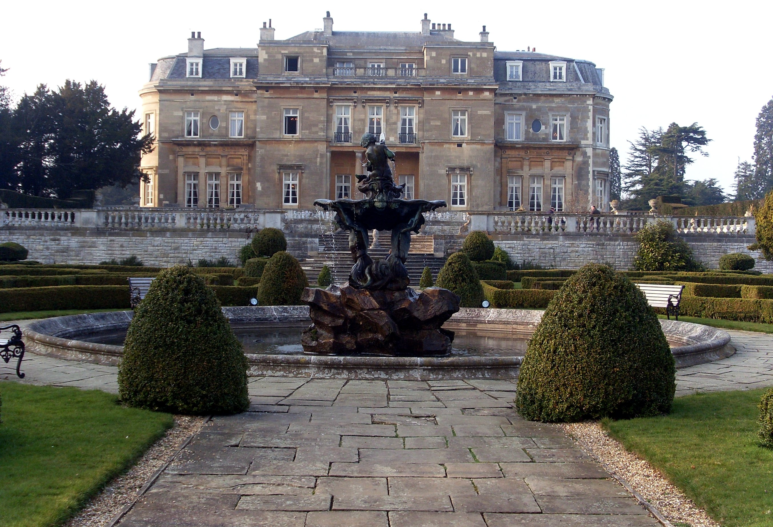 Luton Hoo seen from the fountain.